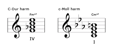 Minor seventh chord m+7 in C-dur-harm and c-Moll-harm